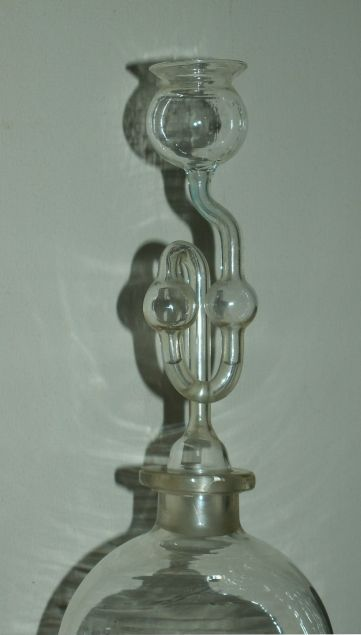 Trap or fermentation lock on Kipp's apparatus.